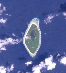 Landsat 7 image of Nanumanga, 30 meter resolution